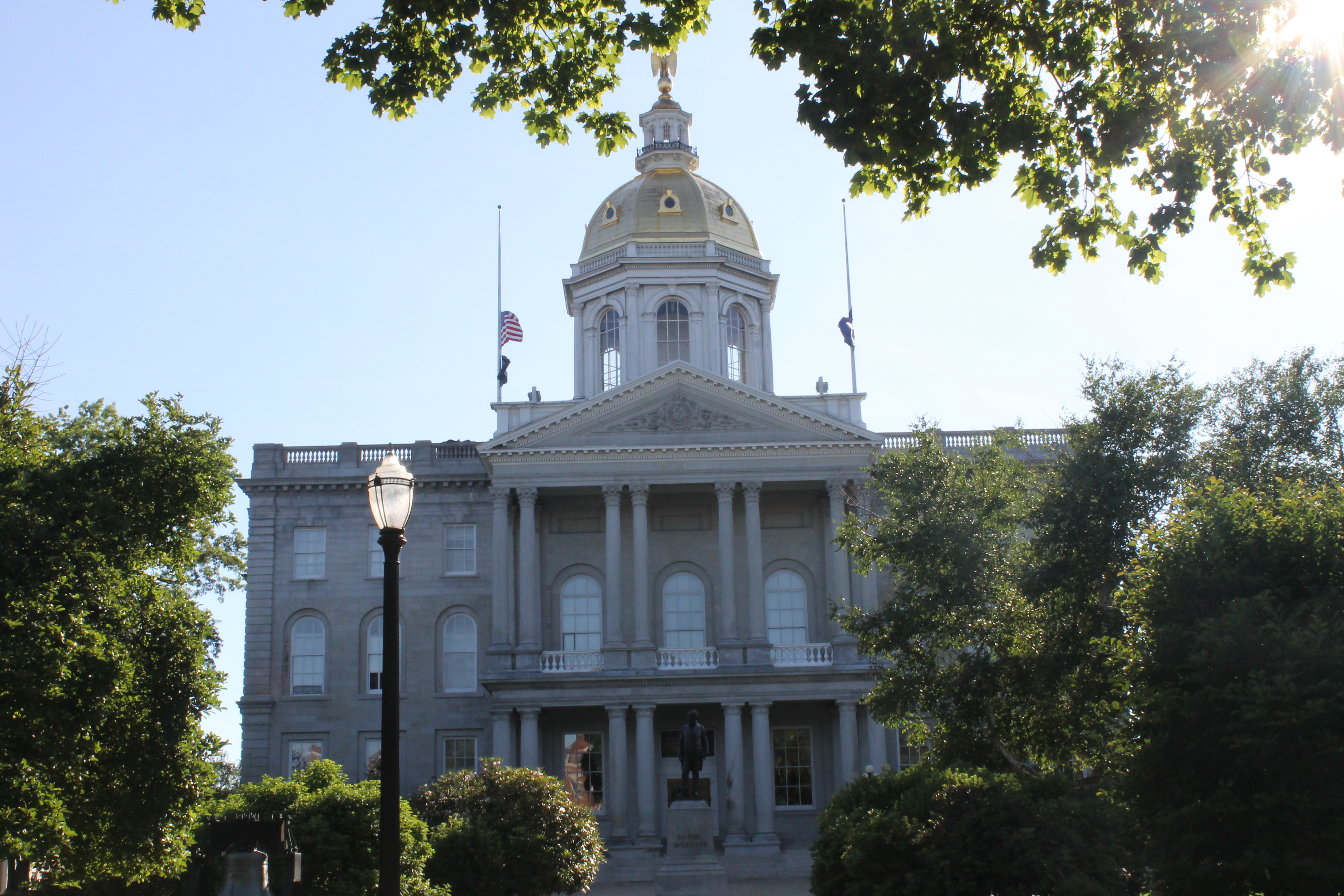 I took photo of state capitol in Concord, NH, with Canon camera.